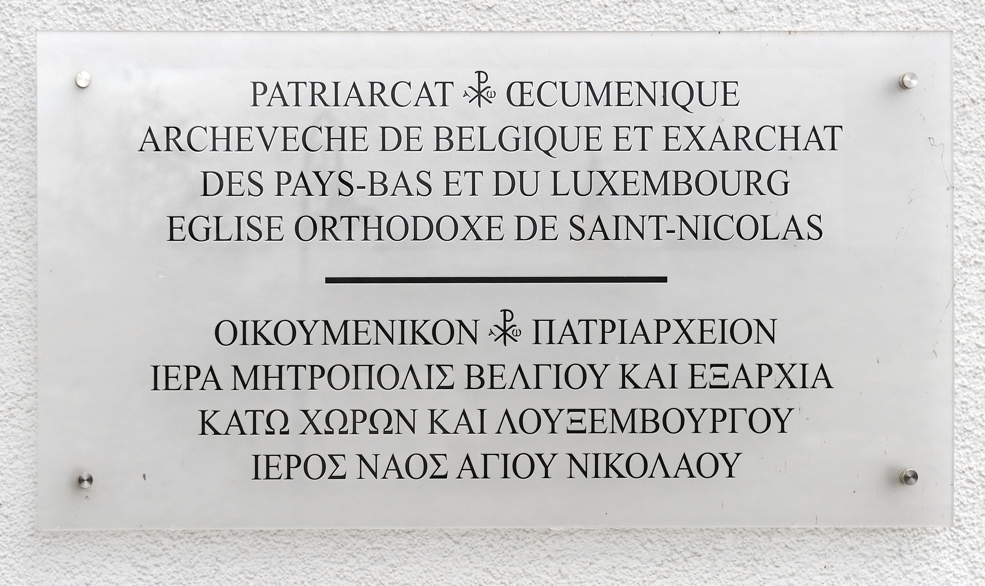 Info panel at the Greek orthodox church at Weiler-la-Tour, Luxembourg